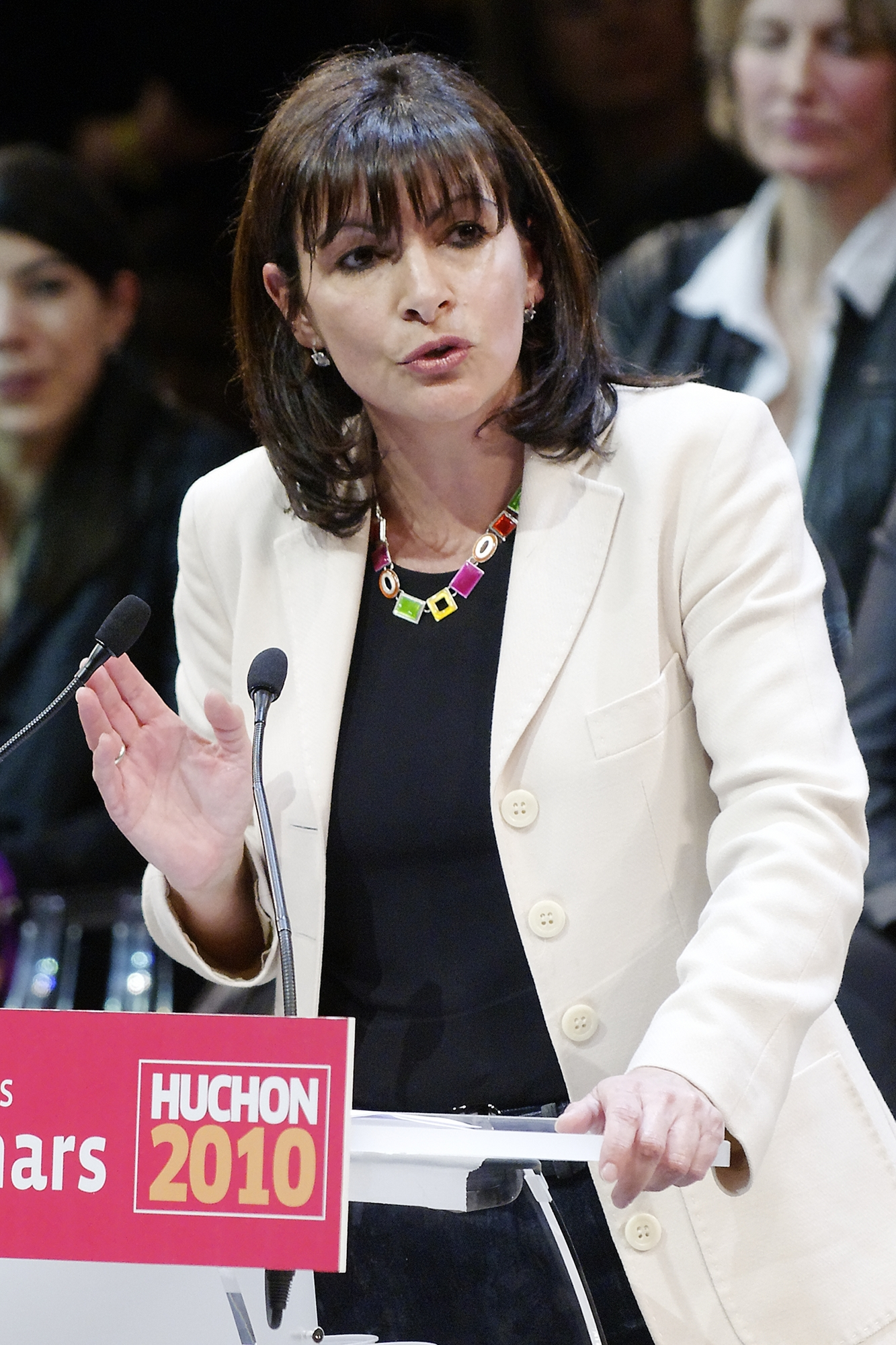 Anne Hidalgo at a Socialist Party's rally during the 2010 French regional elections campaign at the Cirque d'hiver, Paris.